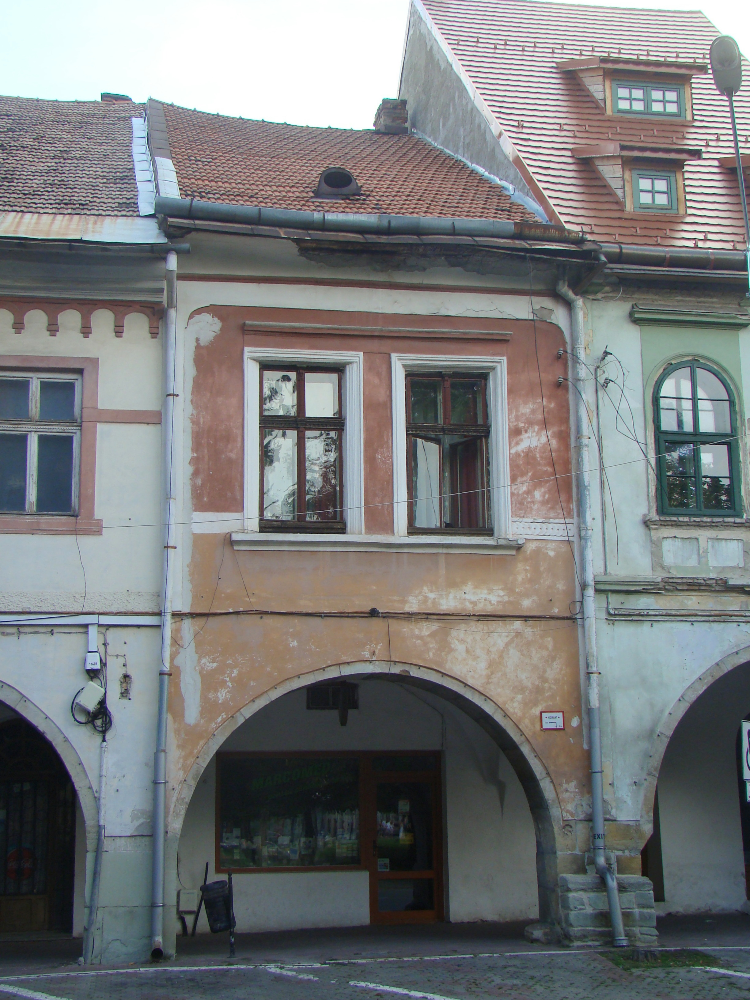 Houses, historic monuments, in Bistrița, Piața Centrală 13-24